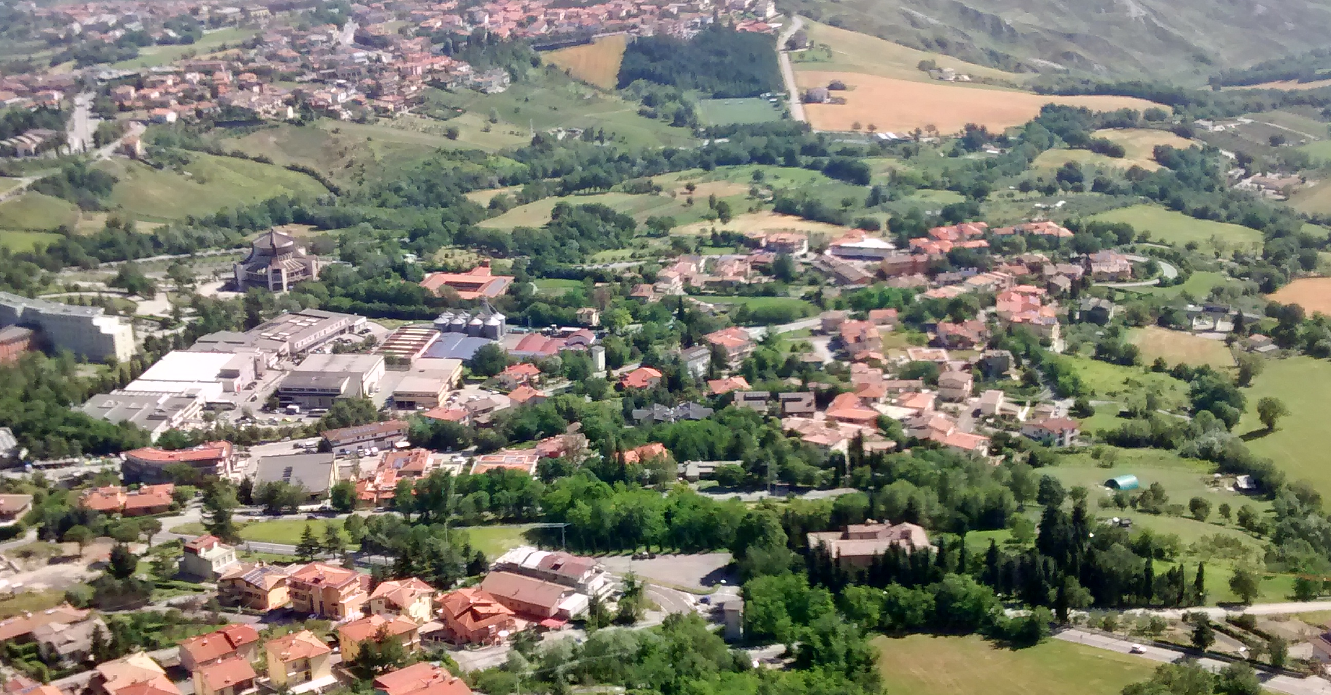 Valdragone, San Marino, seen from the City of San Marino